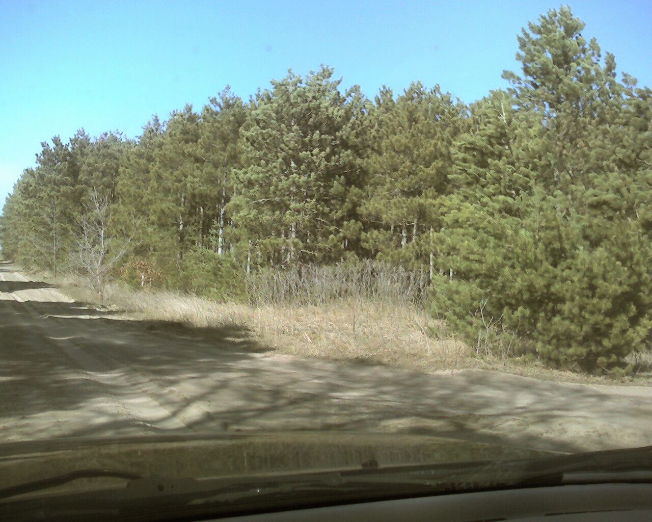 Red Pine (Pinus resinosa) stand in Rice, Minnesota.